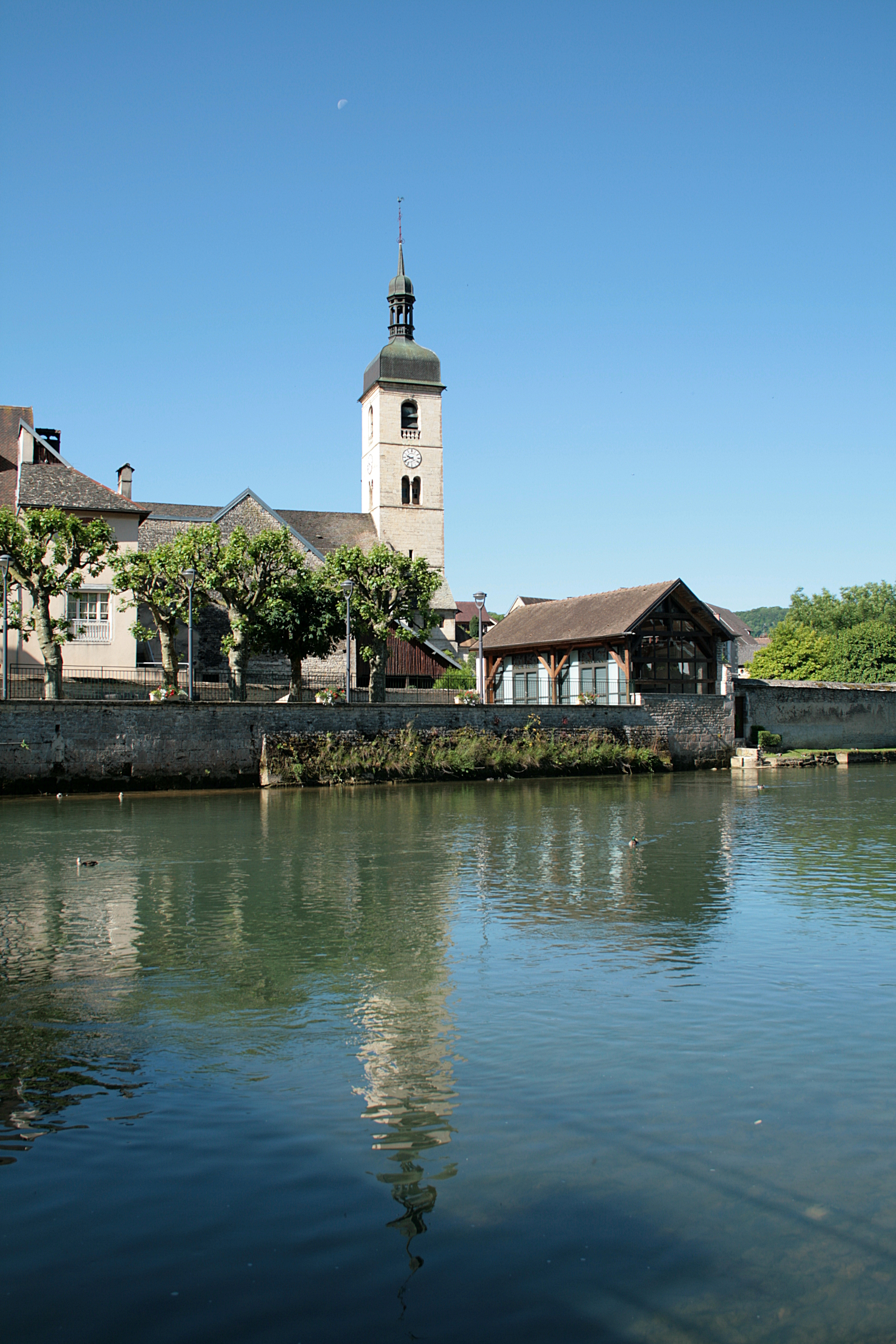 Ornans (Doubs - France), the Loue (river) and the neighborhood of the church of Saint Laurent.